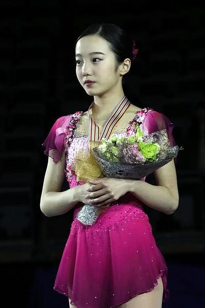 Photos – Junior World Championships 2017 – Ladies